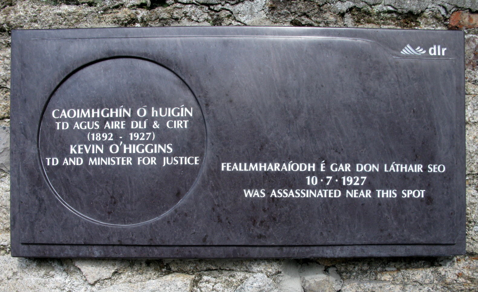 Memorial to Kevin O'Higgins TD, located at Booterstown Avenue and Cross Avenue junction, Dublin